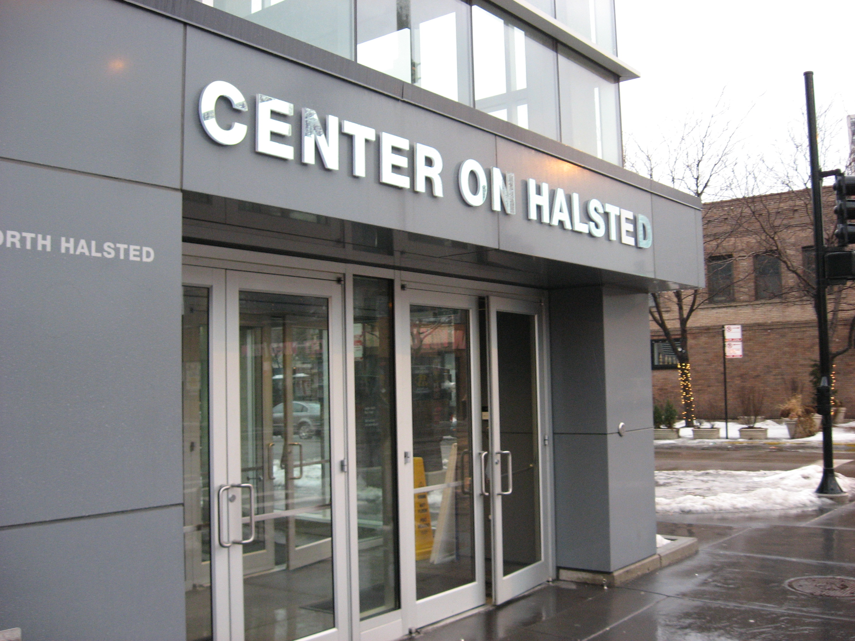 The Center on Halsted, a LGBT community center in the Lakeview neighborhood of Chicago, IL.